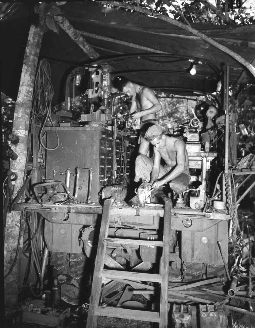 New Guinea. Mobile Machine Shop truck of the 741st Ord. Co., 41st Inf. Div., at Horanda, New Guinea. Pfc. George Chapman, Helena, Montana and Sgt. John Eppard, Pasadena, Cal., machinists, working on automotive parts. Signal Corps Photo: GHQ SWPA SC 43 6856 (Text by U.S. Army)